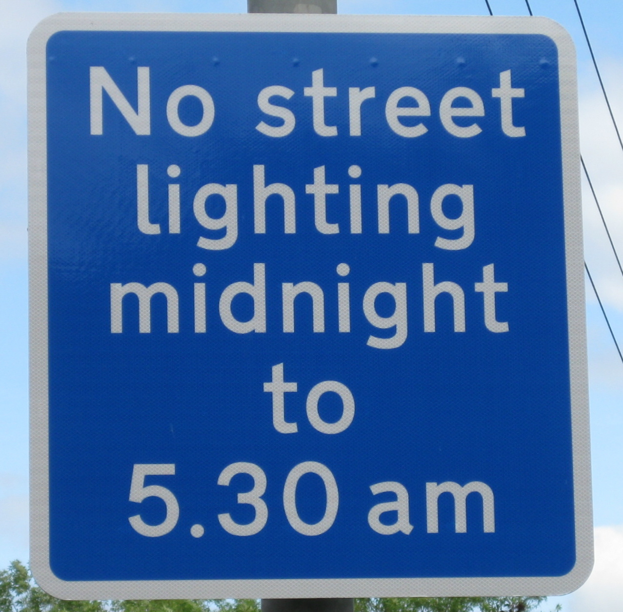 Sign "No street lighting midnight to 5.30 am" on Moortown Ring Road, Leeds.